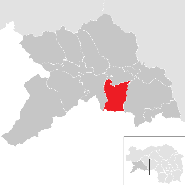 district Murau